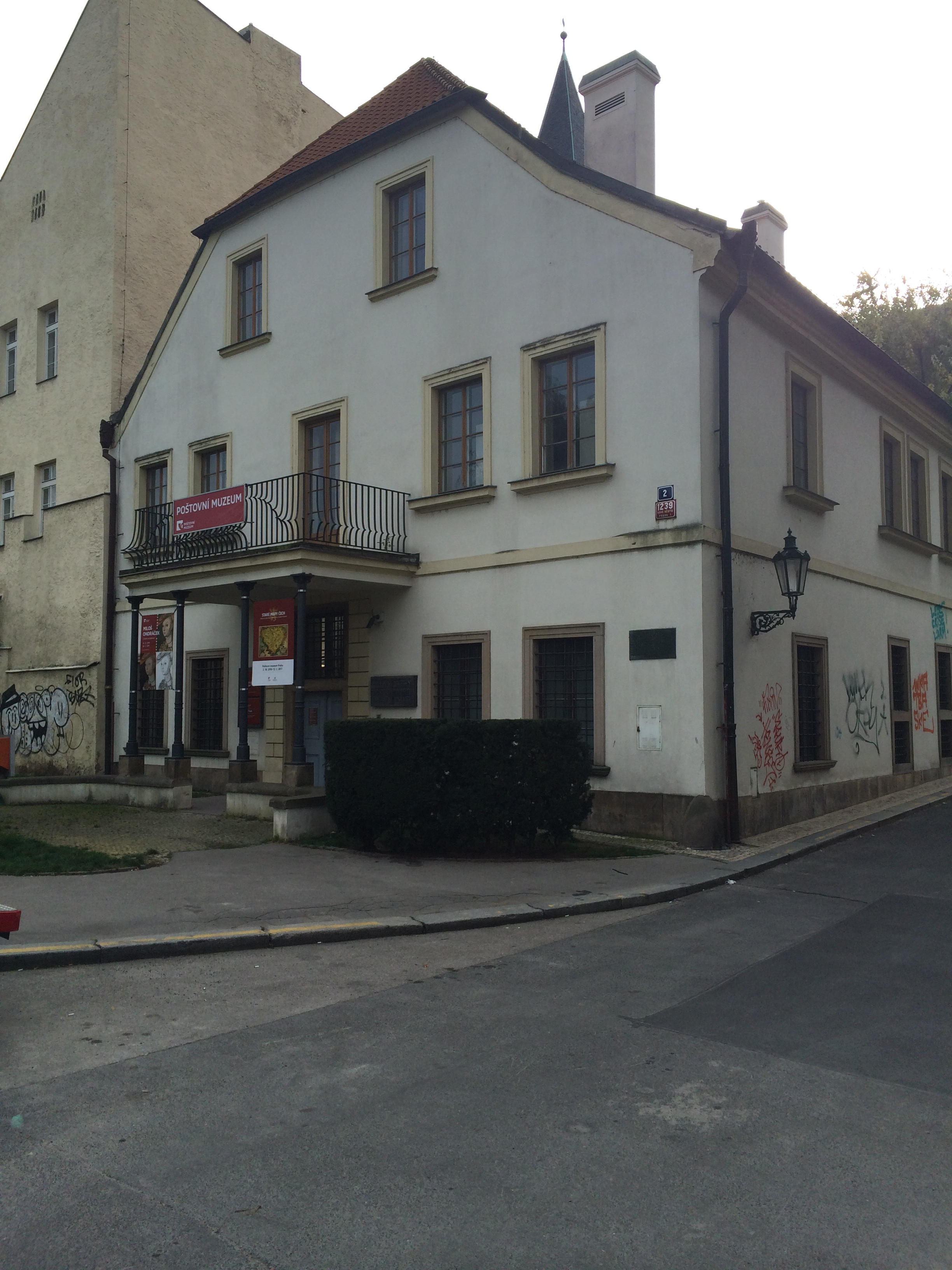 Post Museum of Prague